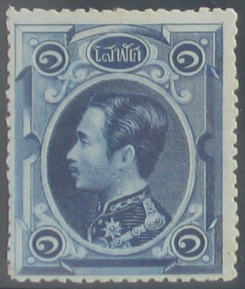 Thai Postage Stamp First Issue. 1 Solot. Issued date 4 August 1883 under King Rama V reign .